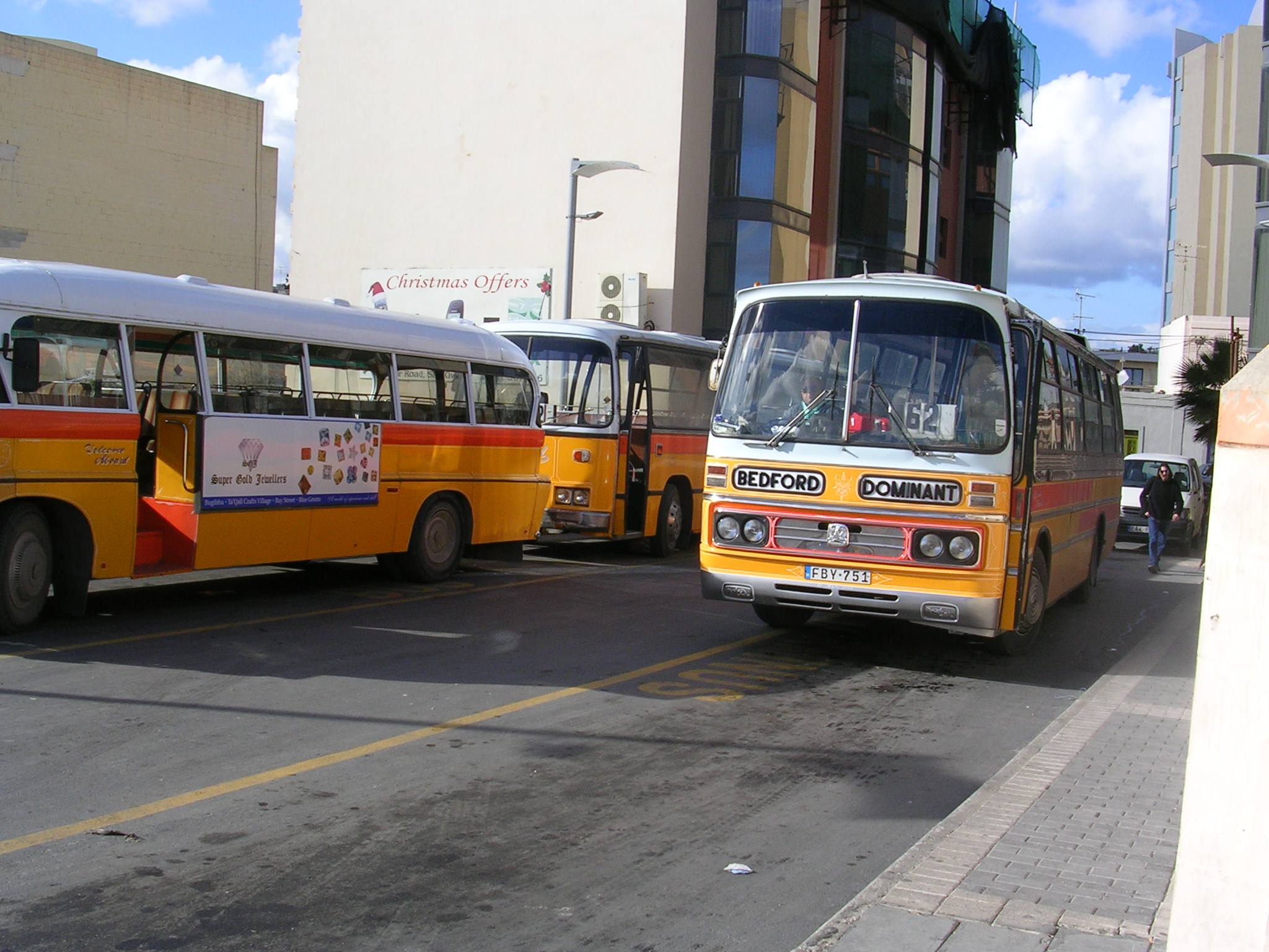 Maltesian bus. Author: Väsk Date: December 2004